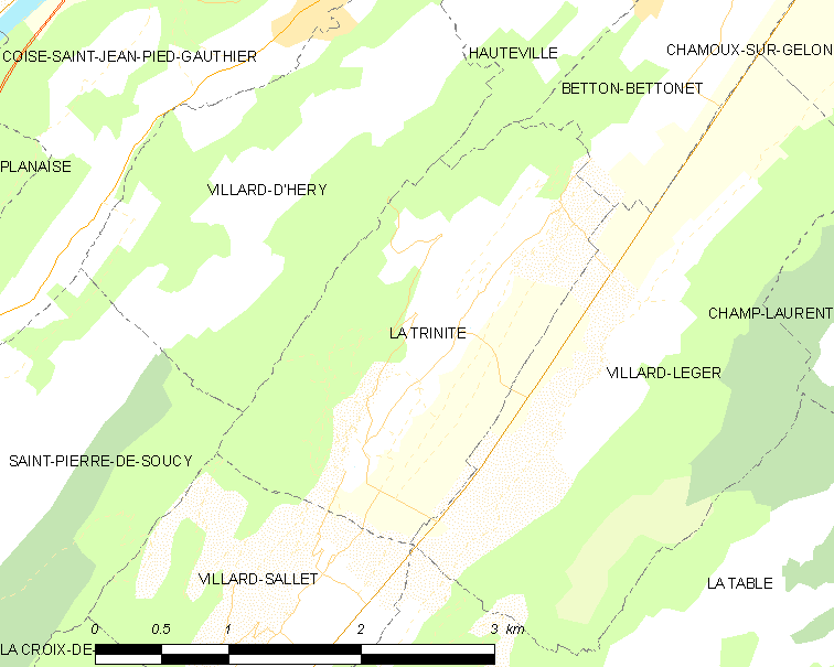 Map of French municipality La Trinité